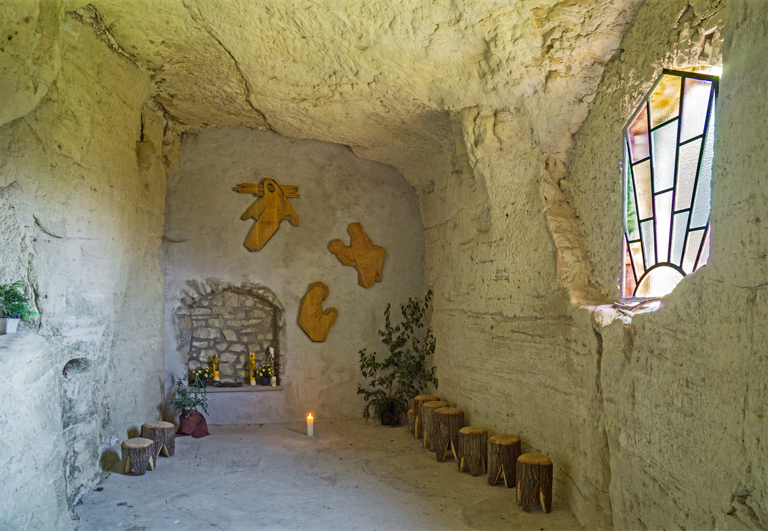 Chapel Fautelfiels